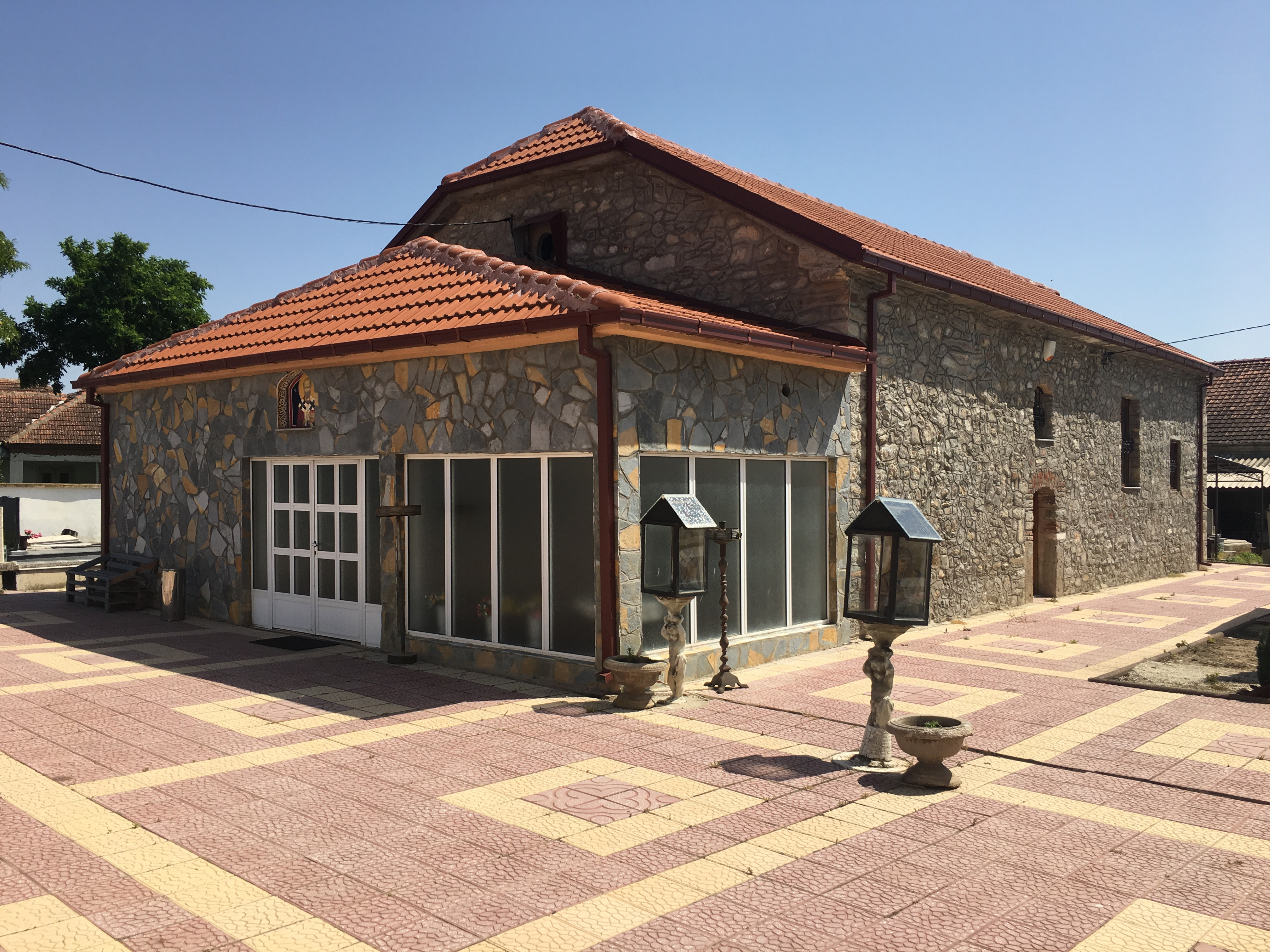 St. Nicholas Church in the village of Karamani